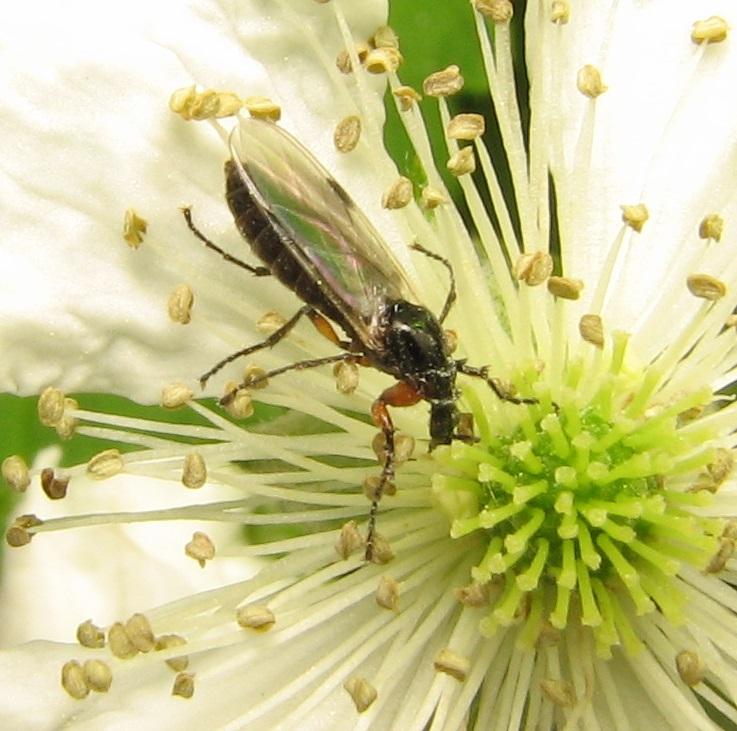 Female bibionid fly, Dilophus, eating pollen. Pennypack Restoration Trust, Montgomery County, Pennsylvania, USA.